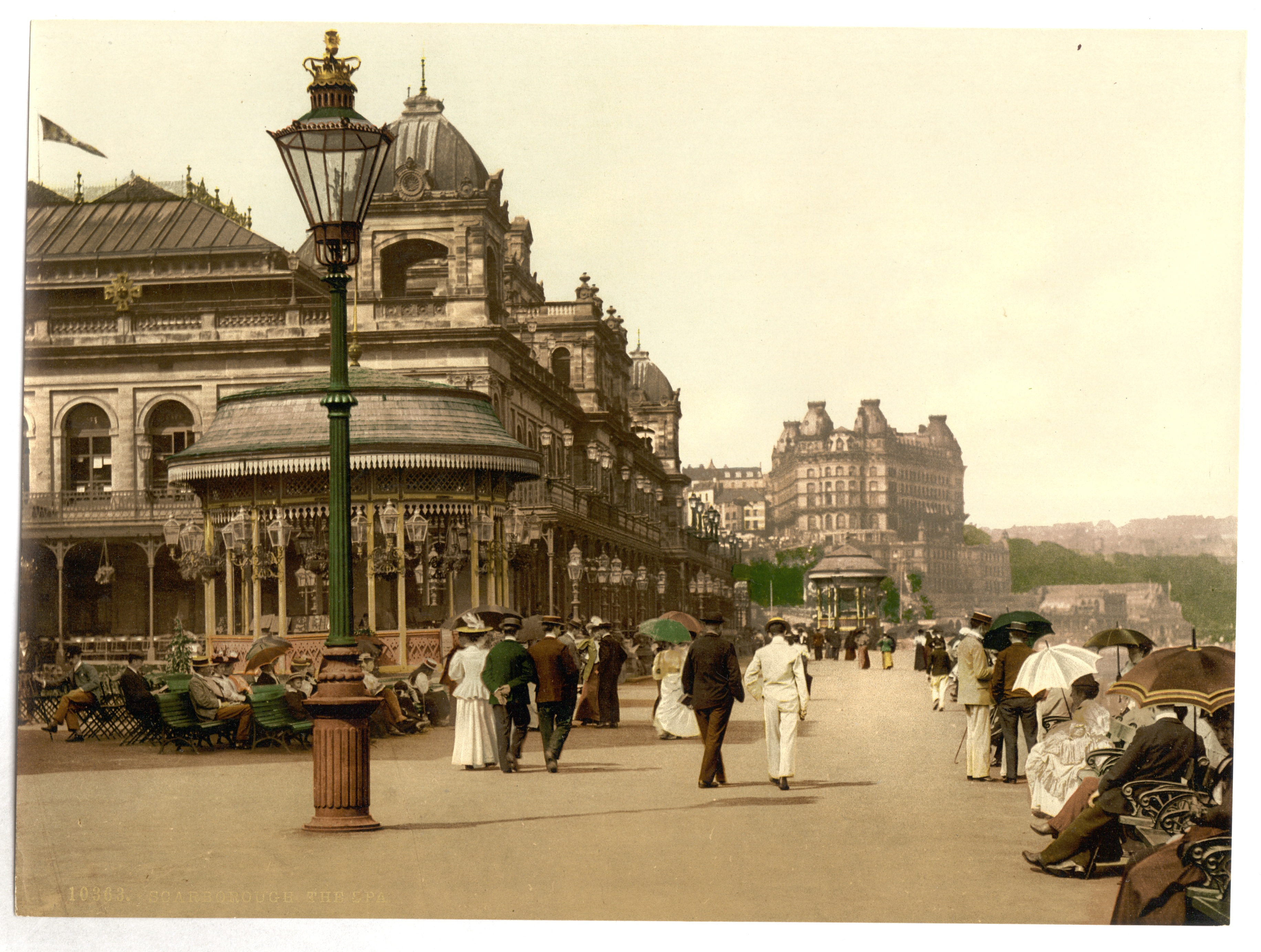 Title from the Detroit Publishing Co., Catalogue J-foreign section, Detroit, Mich. : Detroit Publishing Company, 1905.; Forms part of: Views of England in the Photochrom print collection.; Print no. "10363".